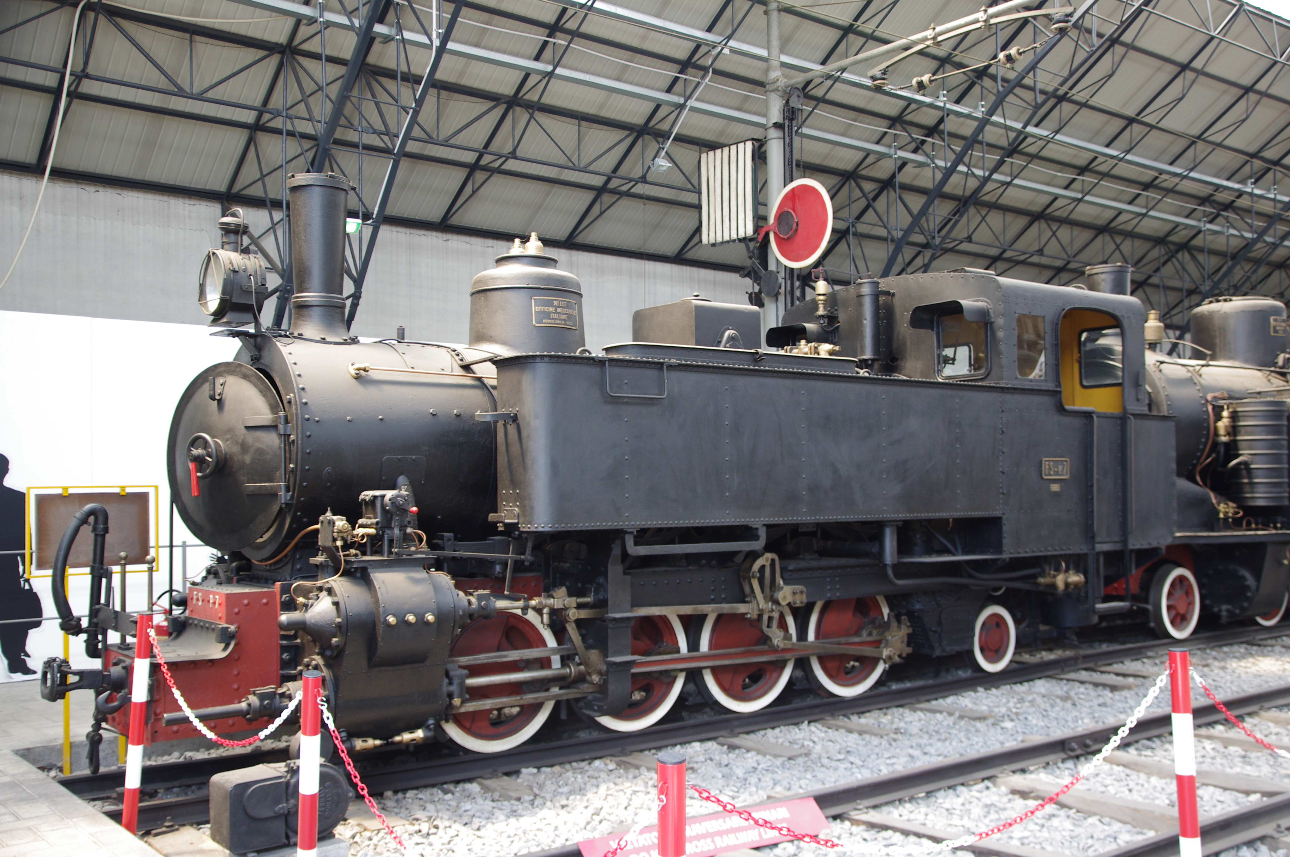 Locomotive FS P7 in National Museum of Science and Technology Leonardo da Vinci in Milan